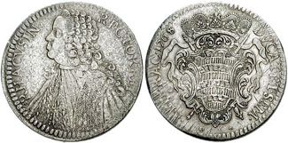 Dalmatia, Republic of Ragusa. , 1526-1814. AR Tallero (28.27 gm). Dated 1768; magistrate DM DM. Draped bust left Crowned coat-of-arms. Davenport 1639; KM 18 (magistrate not recorded for this year).